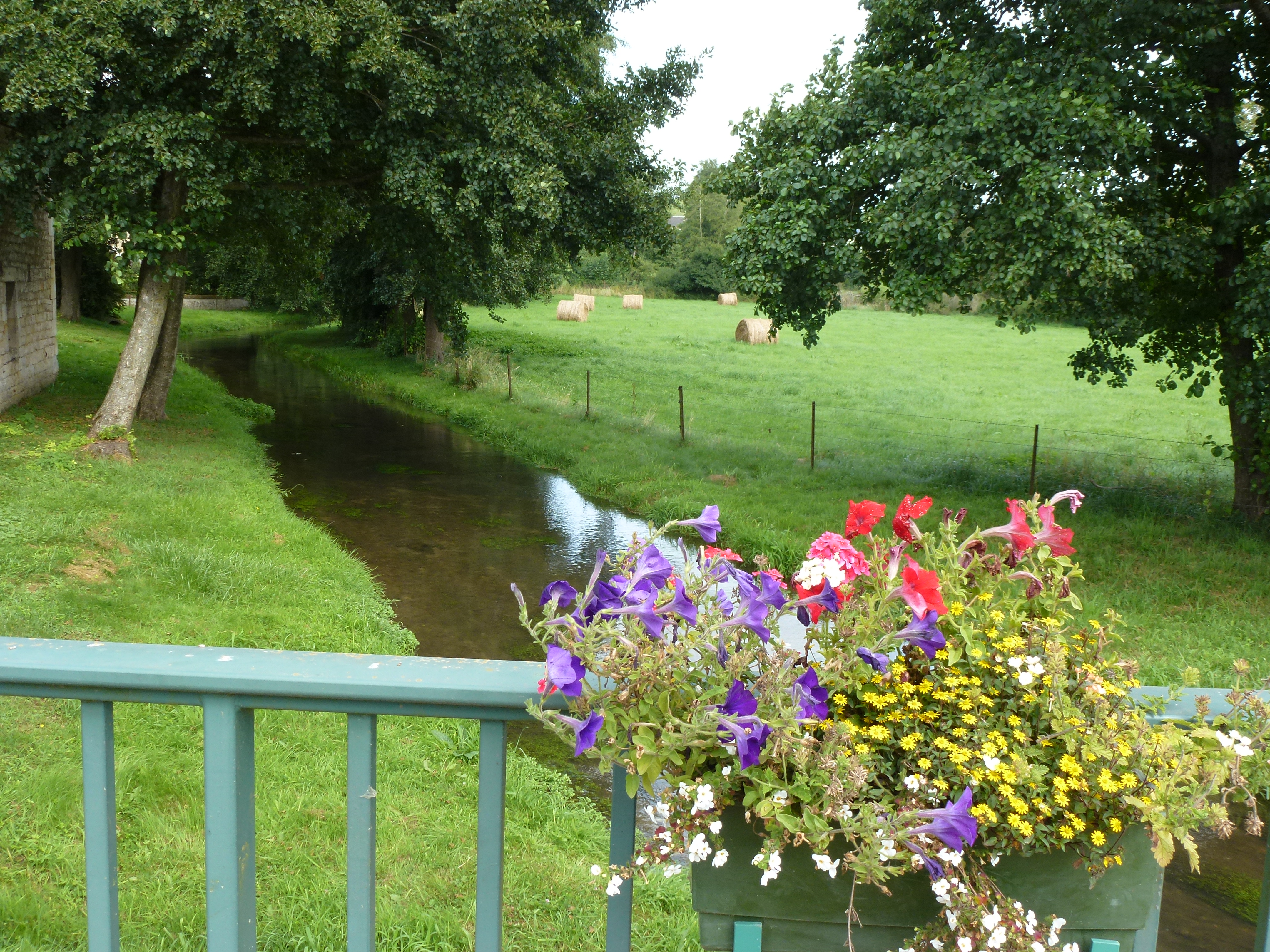 Bossus-lès-Rumigny (Ardennes) le Thon